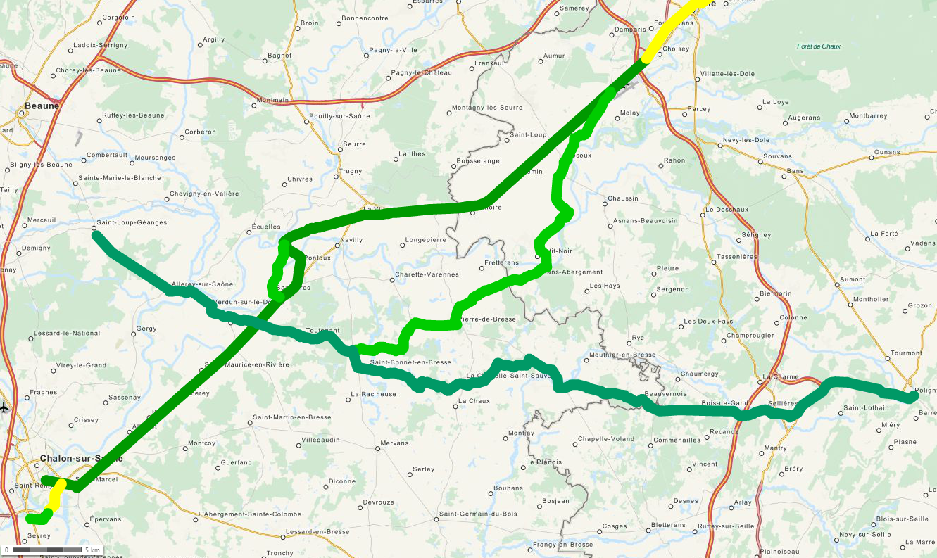 Karte der Römerstrasse von Verdun-sur-le-Doubs nach Poligny Carte de la voie romaine de Verdun-sur-le-Doubs à Poligny This map may be incomplete, and may contain errors. Don't rely solely on it for navigation.